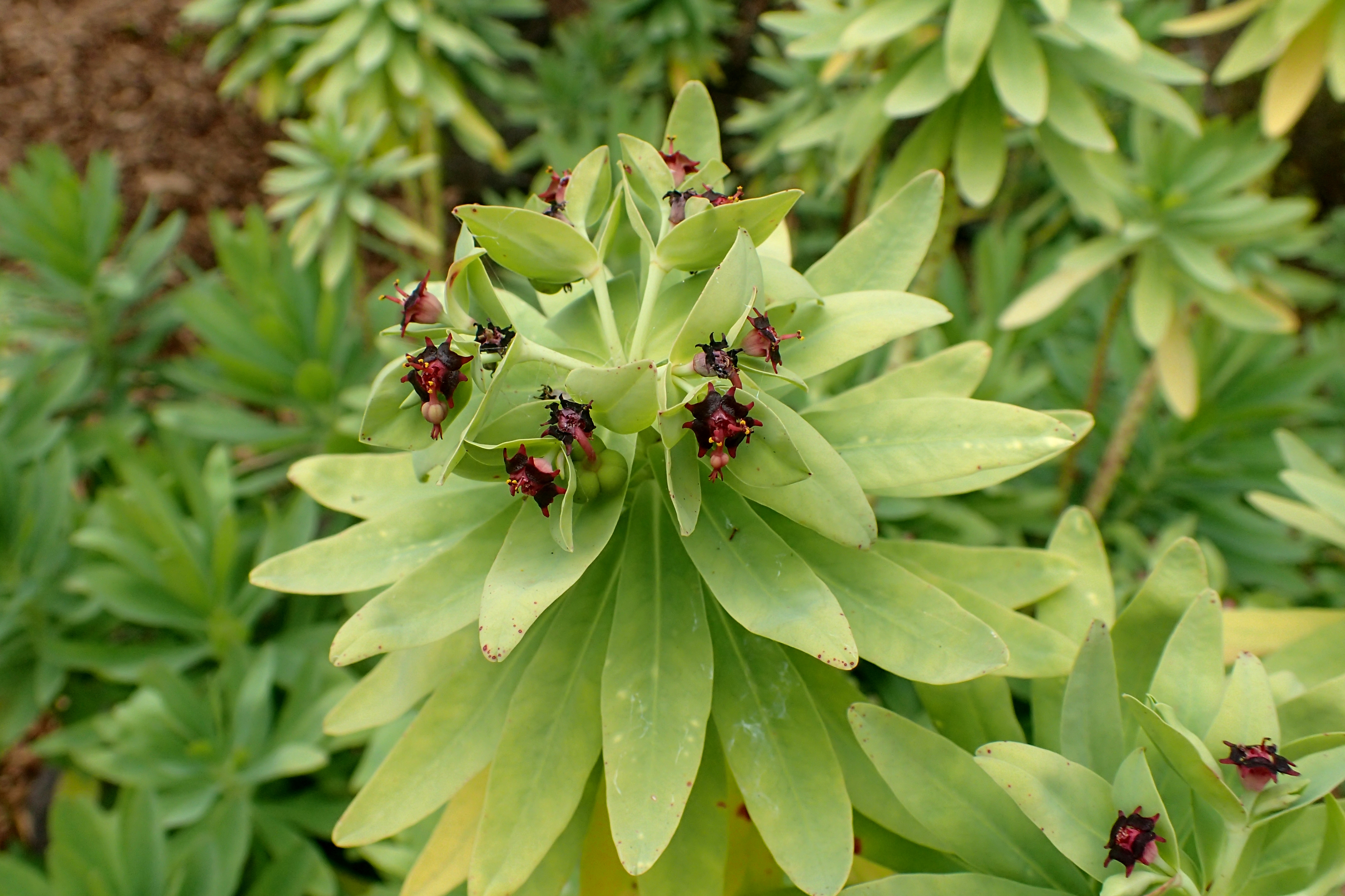 Euphorbia glauca in Auckland Botanic Gardens